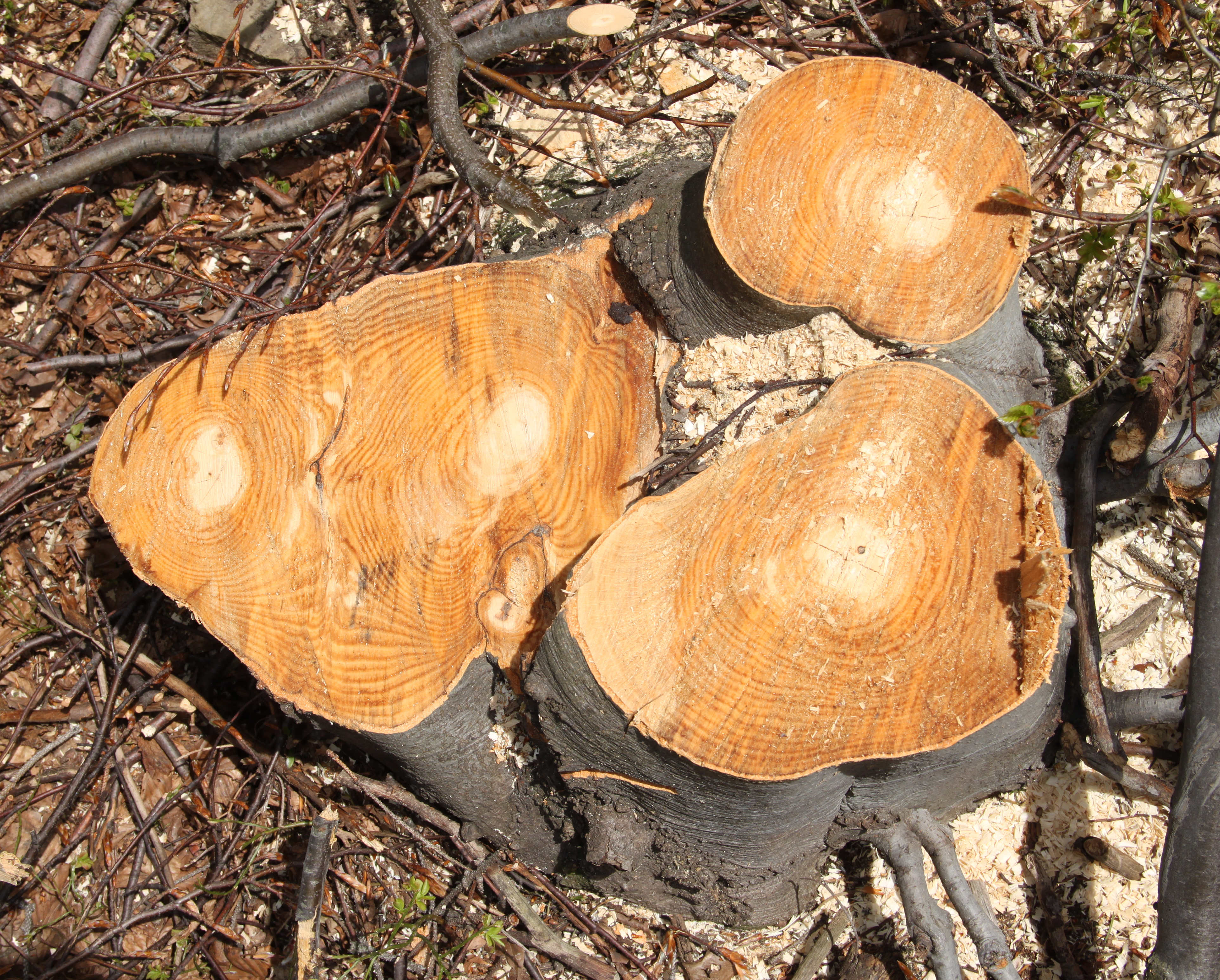 Fagus sylvatica trunks cross section, Beskid Śląski, Polska